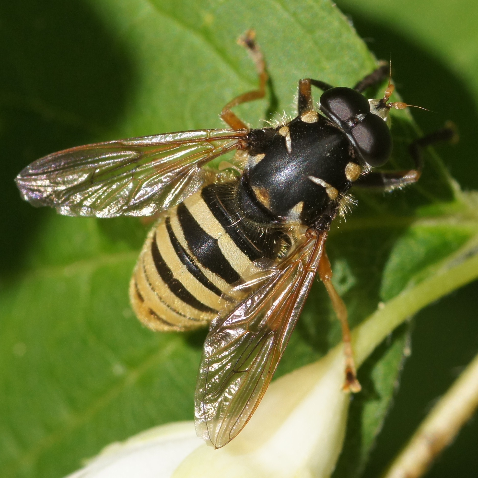 Temnostoma vespiforme (male). Picture taken i Skåne, Sweden.